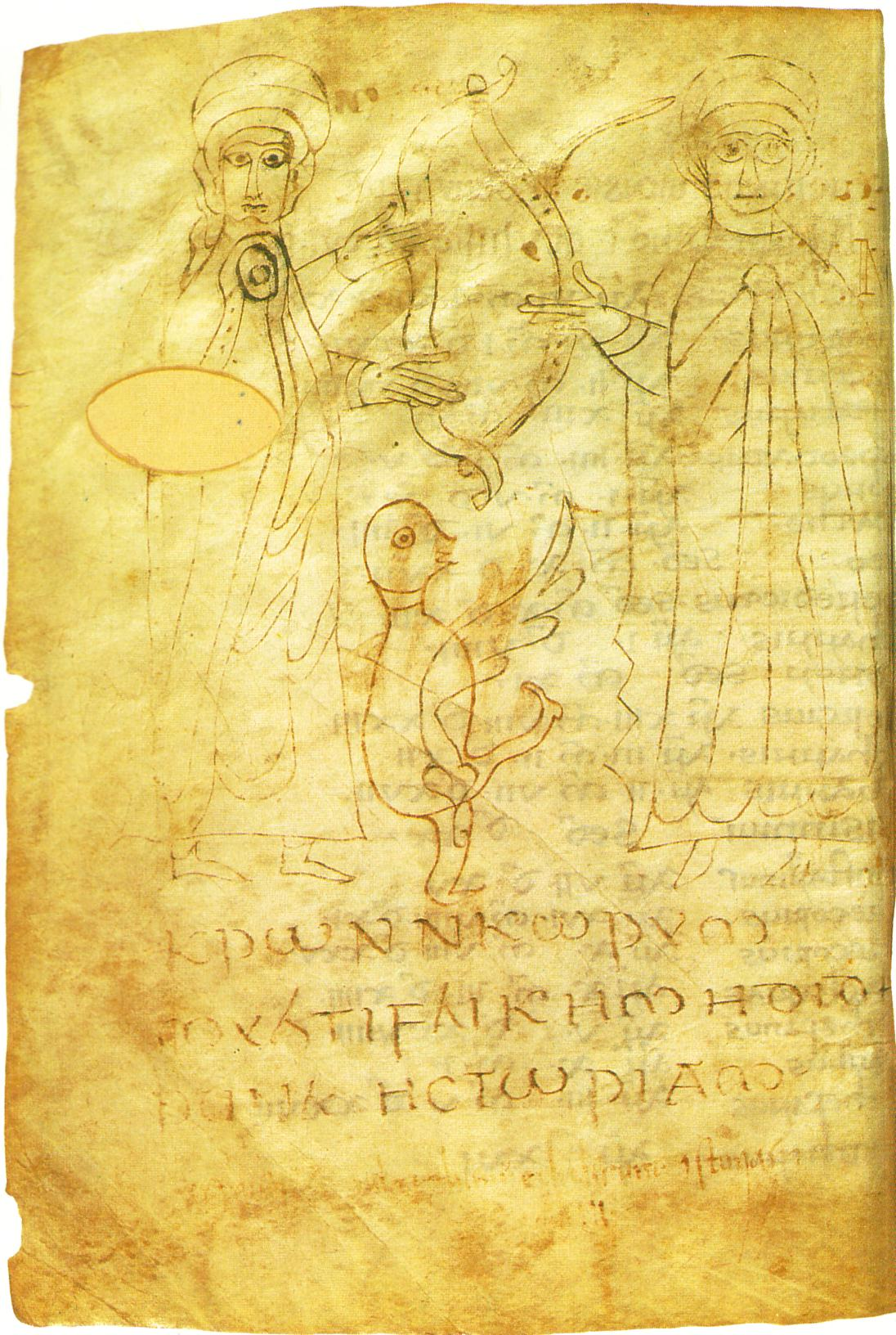 The drawing comes from manuscript BNF MS Latin 10910 on Folio 23 verso. Monod (1885, Fn 1 p. 25) in his publication of the Latin text, suggested that it probably represents Eusebius and Jerome. The text in quasi Greek lettering has been transliterated on the drawing as "Cronicorum multiplicem ediderunt istoriam". This phrase is taken from the preface of the Chronicle of Isidore of Seville.(Goffart 1963, p. 211). Sources Monod, Gabriel (1885), Études critiques sur les sources de l'histoire mérovingienne. La Compilation dite de "Frédégaire" (in Latin), Paris: F. Vieweg. Goffart, Walter (1963), "The Fredegar Problem Reconsidered", Speculum 38 (2): 206–241, JSTOR 2852450. Reprinted in Goffart, Walter (1989), Rome's Fall and After, London: Hambledon Press, pp. 319–354, ISBN 978-185285001-2.